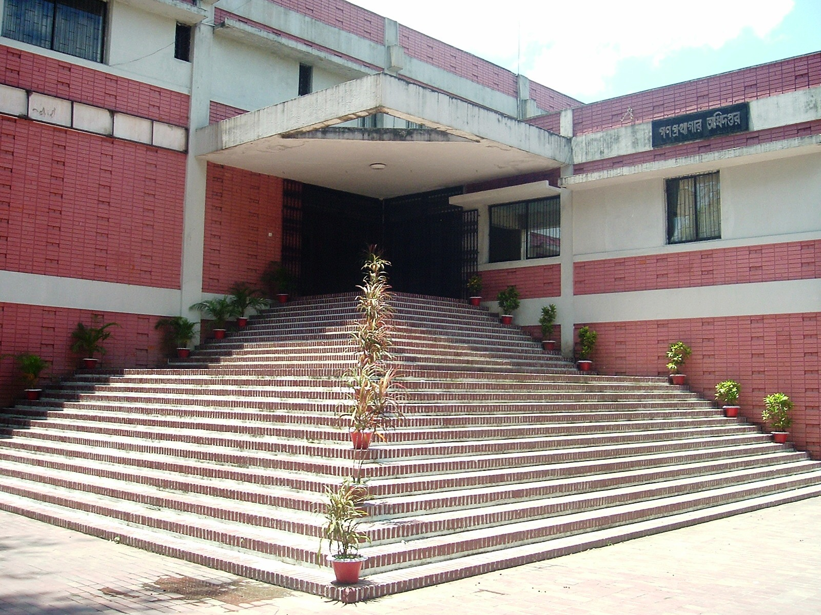 Public Library, Shahbag; photo taken by me and MAK